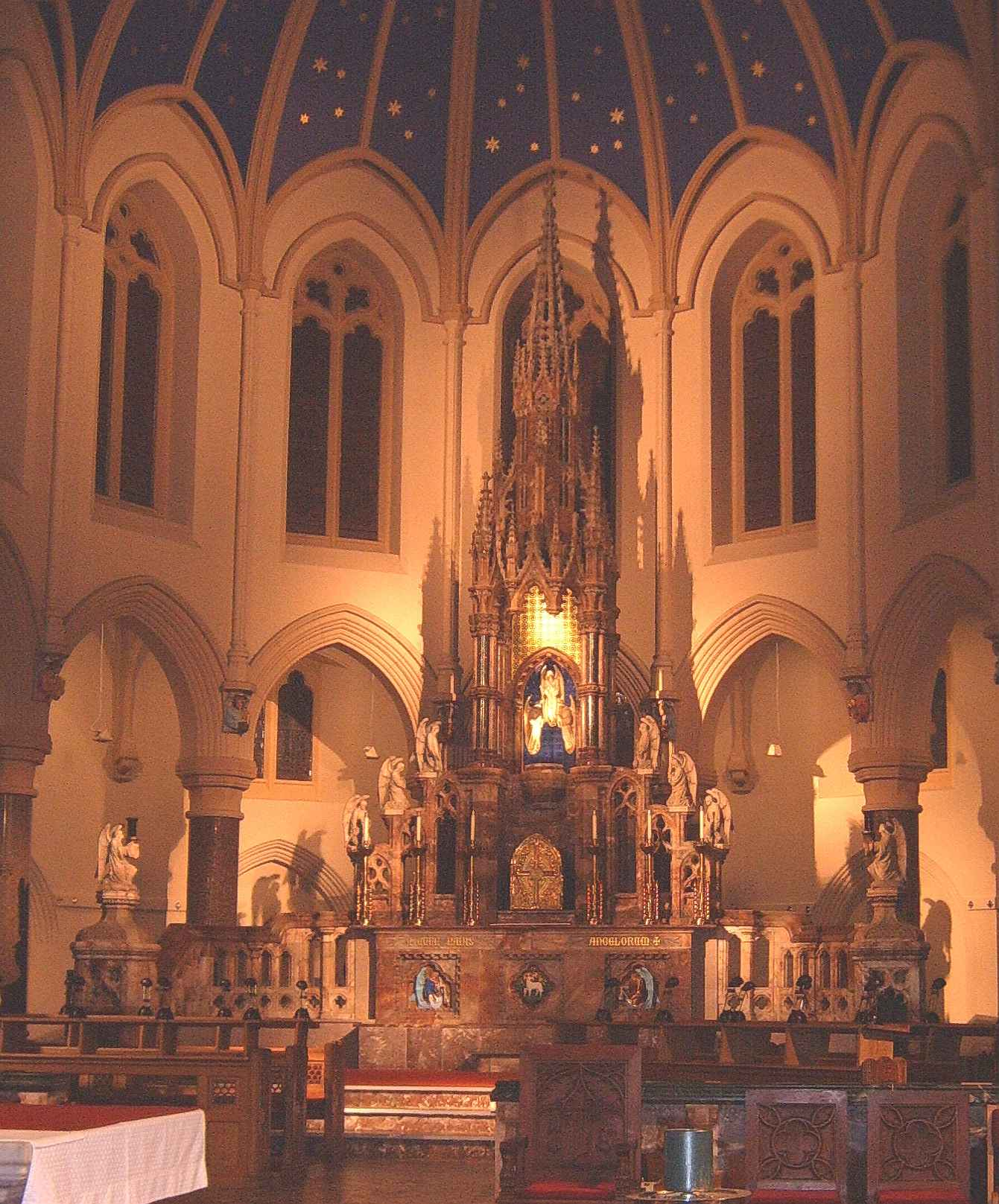 Inside the apsidal chancel of the Roman Catholic church of St Mary, Brownedge Lane, Bamber Bridge, Lancashire. The altar was designed by Peter Paul Pugin.